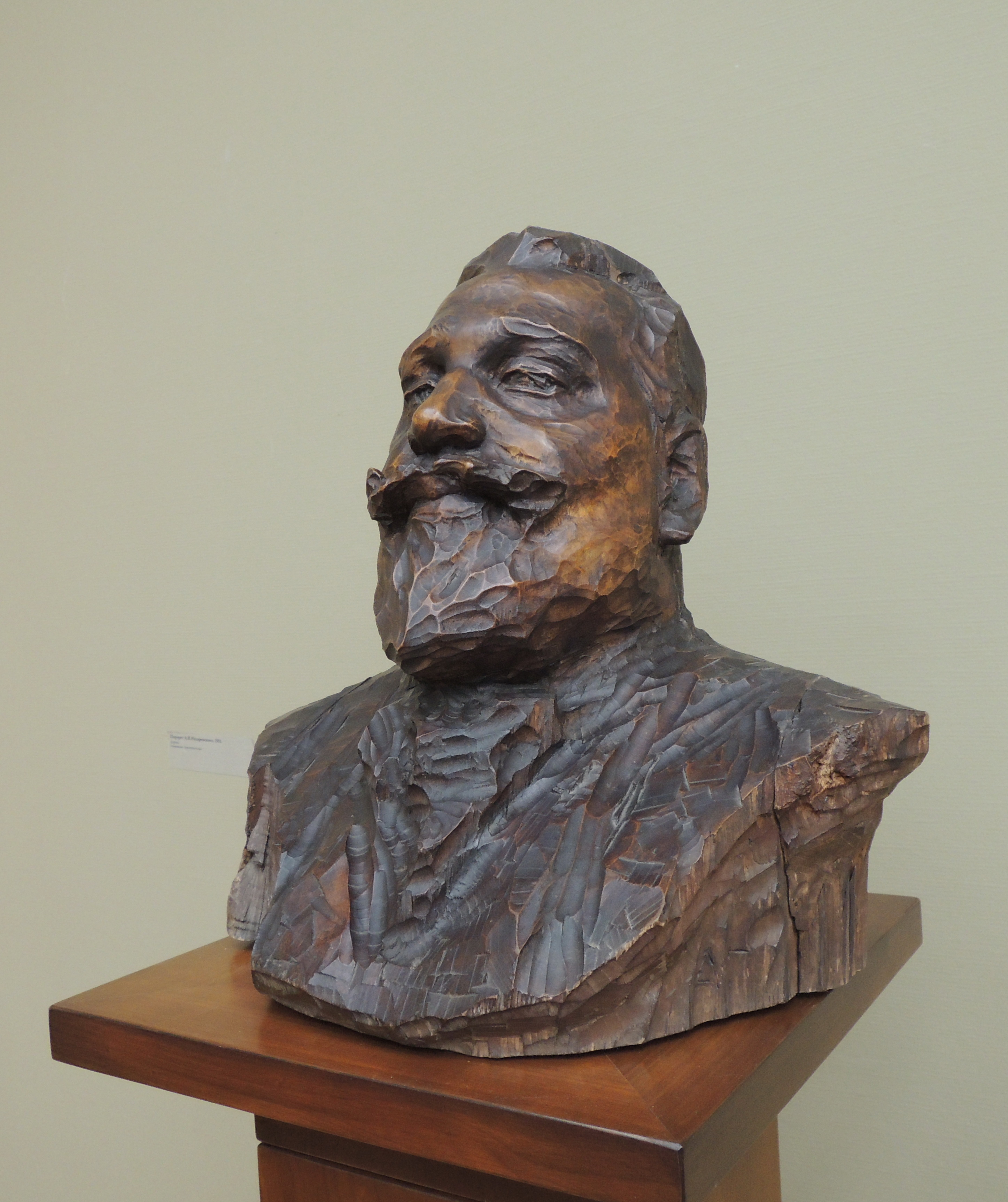 see filename. Own photo of work of sculptor Anna Golubkina (1864-1927)